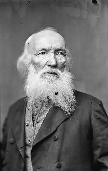 1 negative : glass, wet collodion, b&w ; 11 x 16.5 cm.